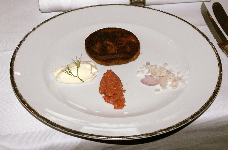 Blini Demidoff au Caviar (Buckwheat cakes with caviar and onions. Part of the Menu from the film Babette's Feast, based upon the story by Karen Blixen (Isak Dinesen). The menu in the film is created by Danish masterchef Jan Pedersen, from restaurant Everdamskroen who has also created the menu on the photo based on the same recipe.)